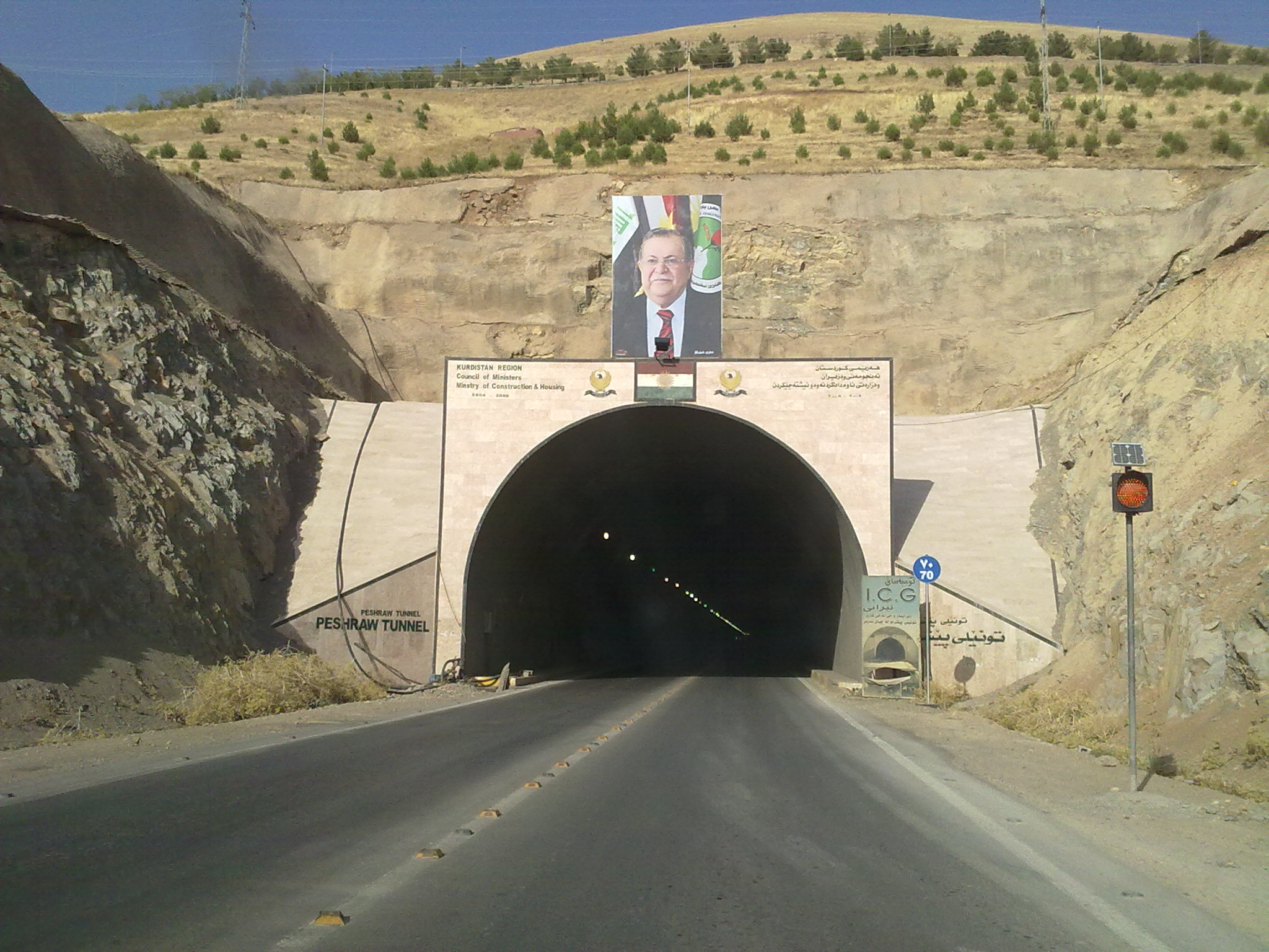 Peshraw Tunnel in Sulaimaniyah City